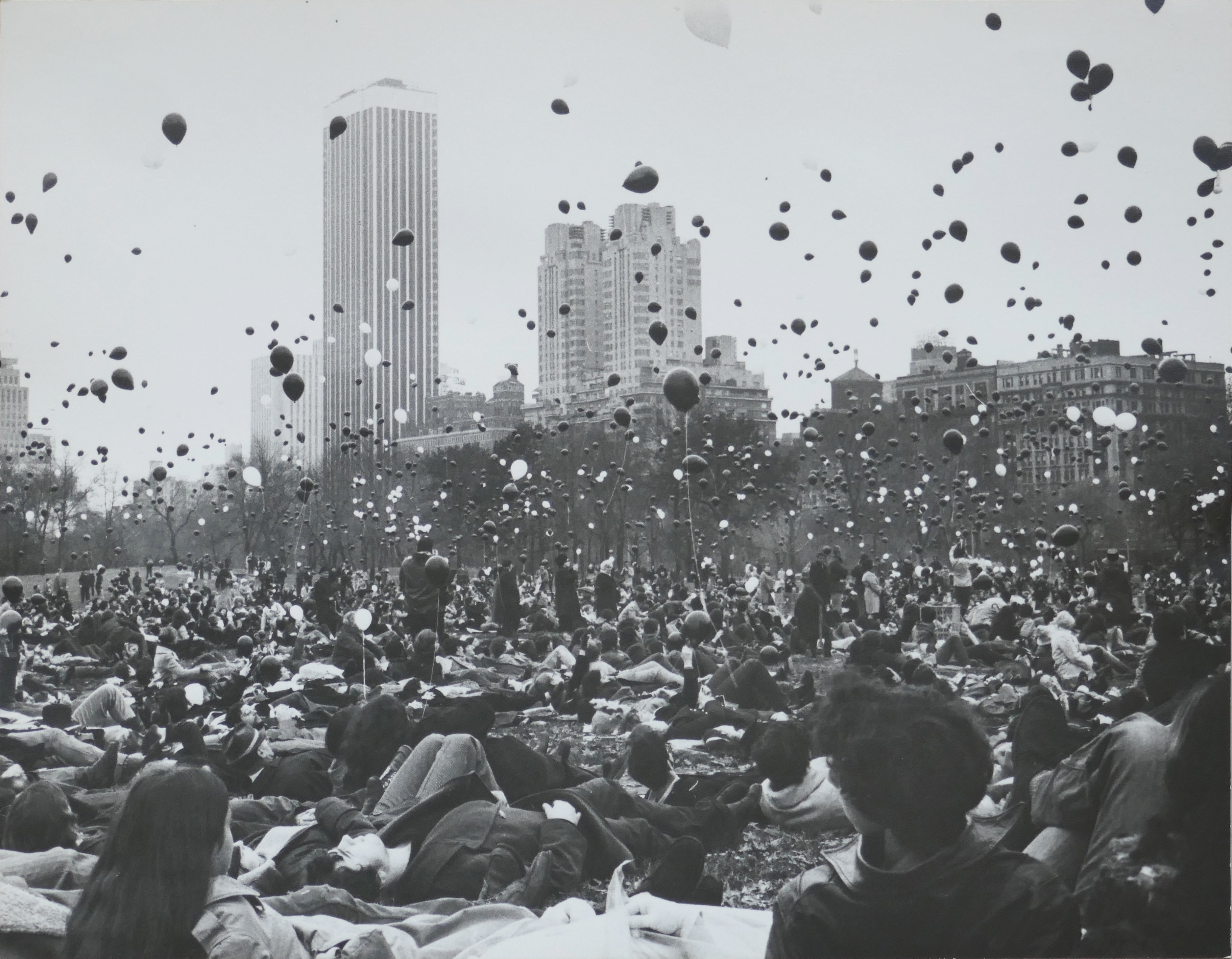 Symbolic representation of American dead in Vietnam since Jan. 20th 1969